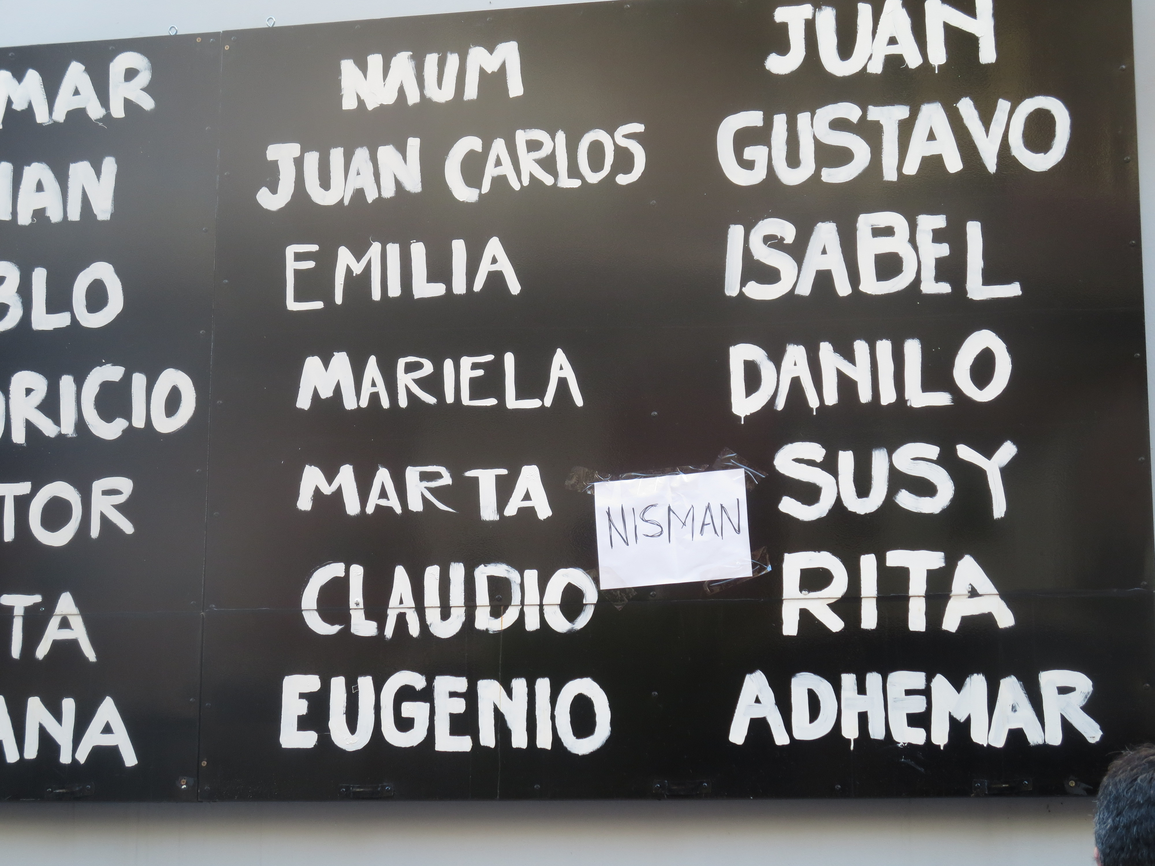 Each year thousands of persons protesting against the AMIA bombing